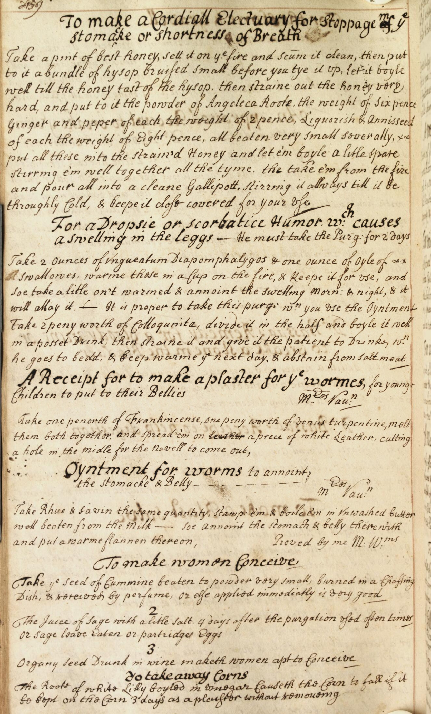 A volume of cooking and medicinal recipes collected by Merryell Williams of the Ystumcolwyn Estate, Montgomeryshire, towards the end of the 17th century and beginning of the 18th century.